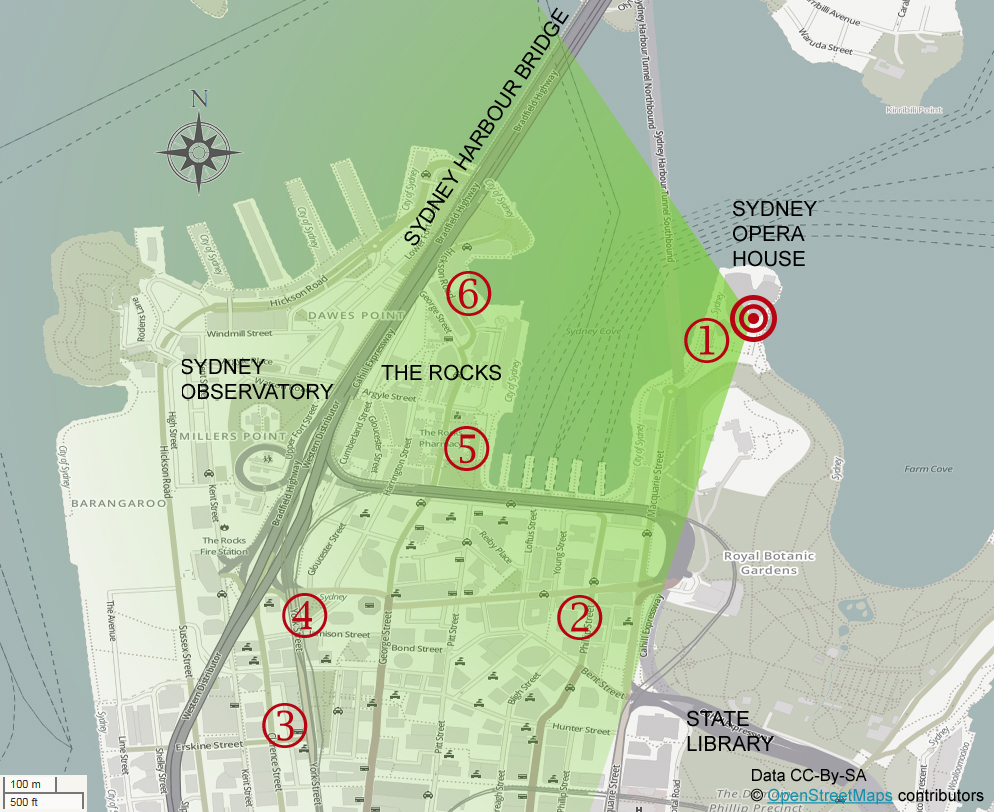 A map locating the images on the Sydney Cove punchbowl in relation to the panoramic guide on Sydney punchbowls